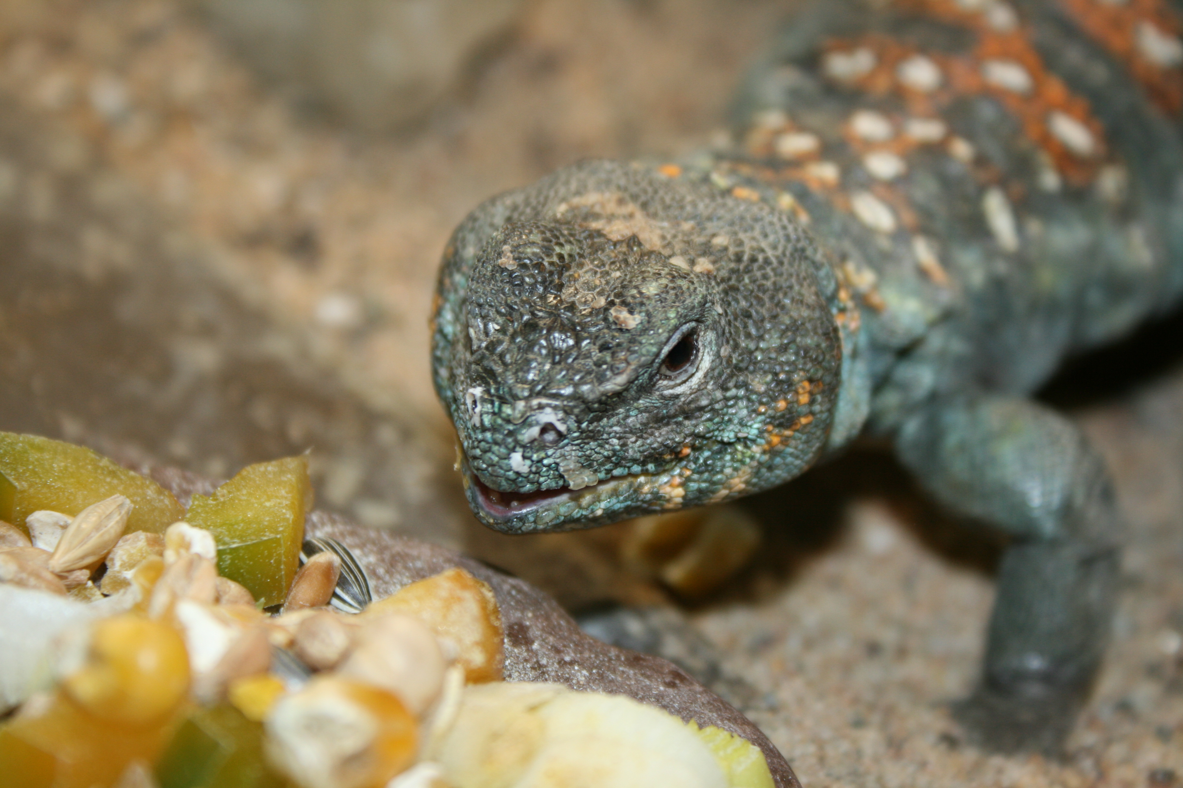 An Eyed Dobb Lizard from the Uromastyx genus, better known as Spiny-tailed lizards.